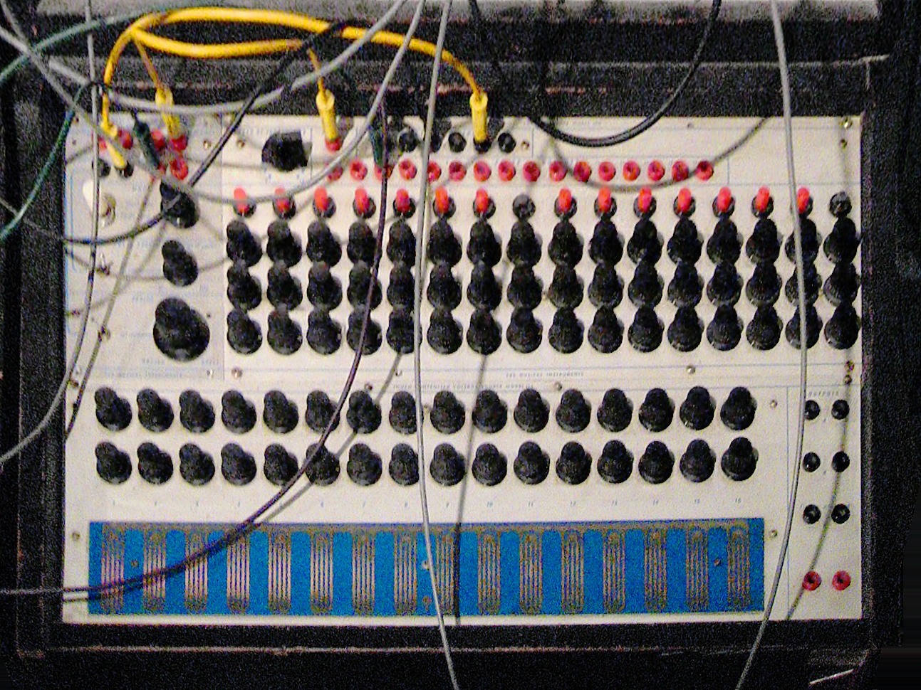 Buchla 100 at NYU Buchla 147 Sequential Voltage Source module (16-step x 3-layers) Buchla 114 10-Touch-Controlled Voltage Sources module (capacitive keyboard)